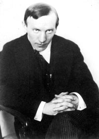 Photo of Belarusian playwriter, journalist and Gulag survivor Francišak Alachnovič Беларуская (тарашкевіца): Фатаздымак беларускага драматурга, тэатральнага і палітычнага дзеяча, публіцыста і празаіка Францішка Аляхновіча